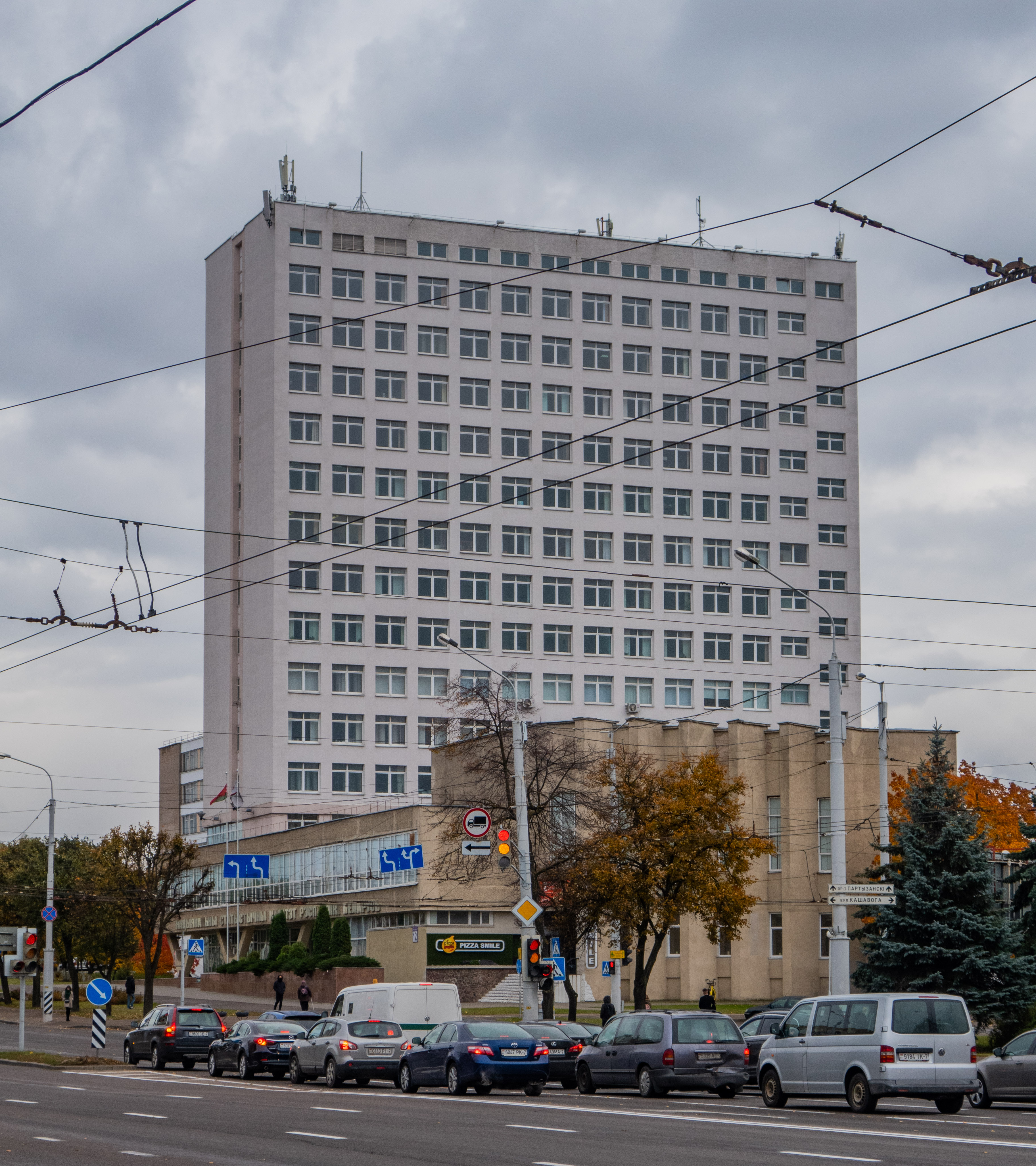 Partyzanski avenue. Minsk, Belarus